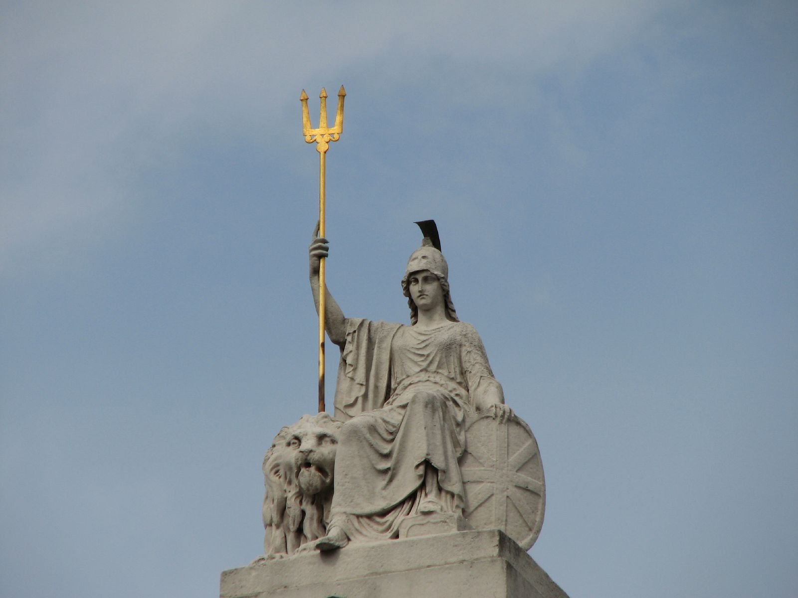 High up on Somerset House.Britannia